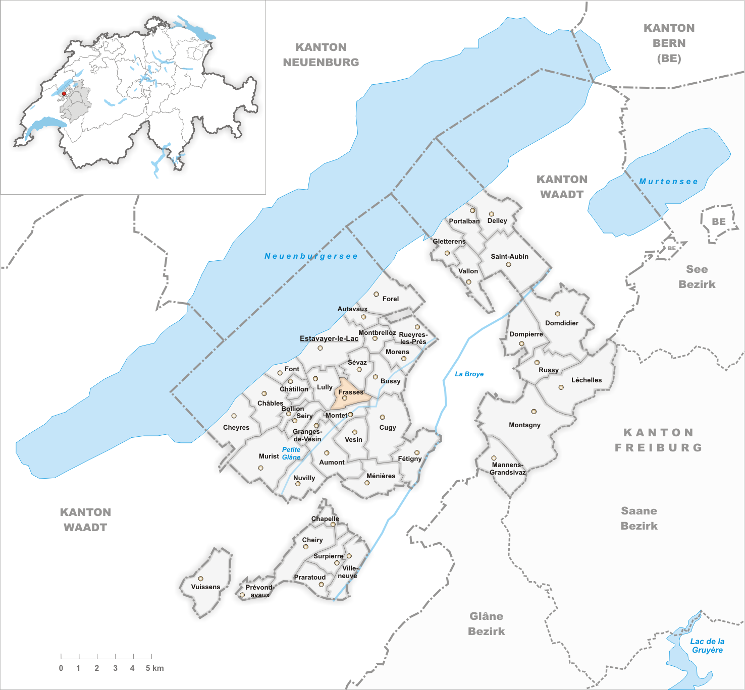 Municipality Frasses Artist: Tschubby